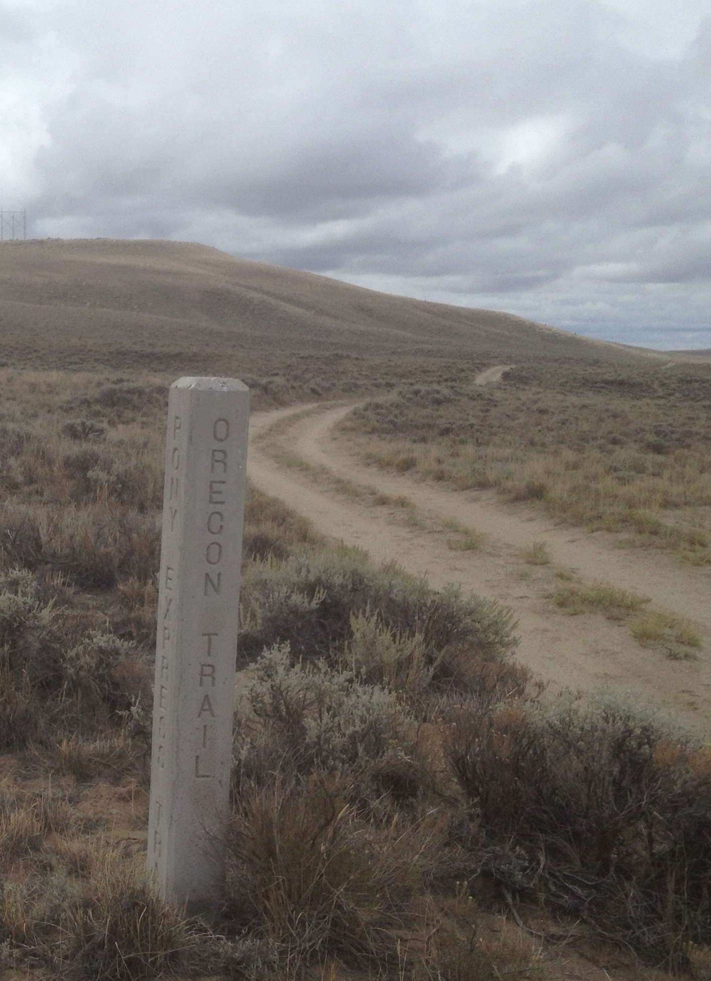 The Oregon Trail (followed by an unpaved road) just southwest of the ghost town of Pacific Springs WY